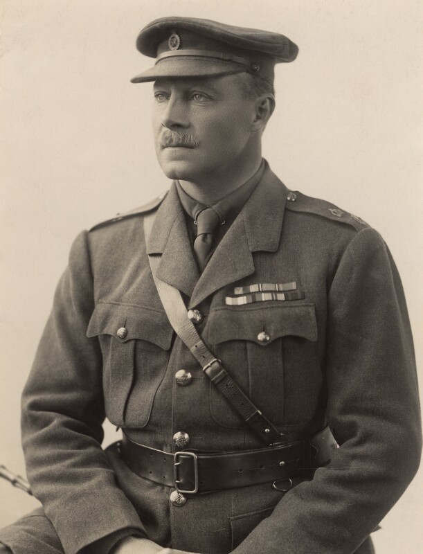 Lord Tweedmouth